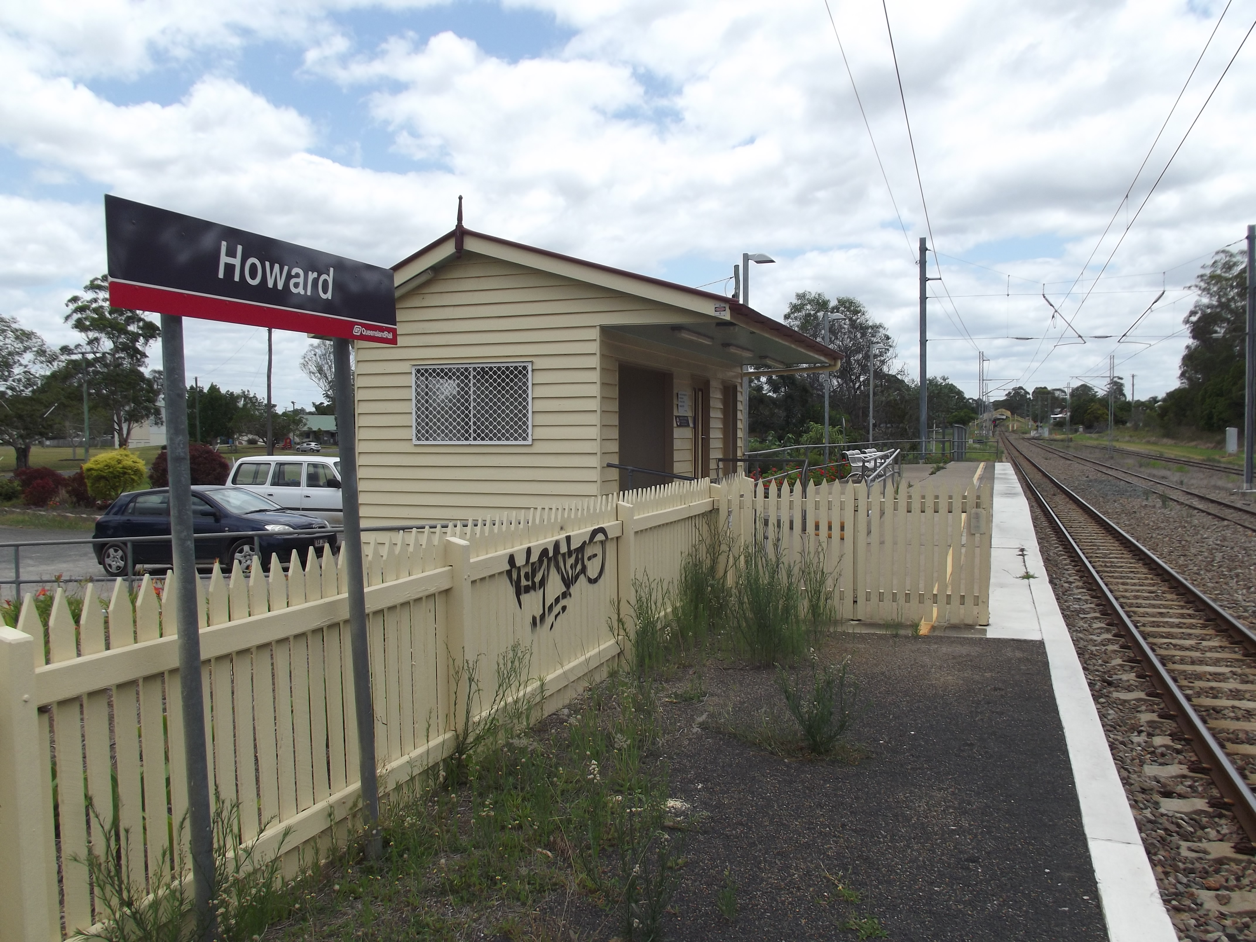 Howard railway station, on the North Coast line in South-Central Queensland.